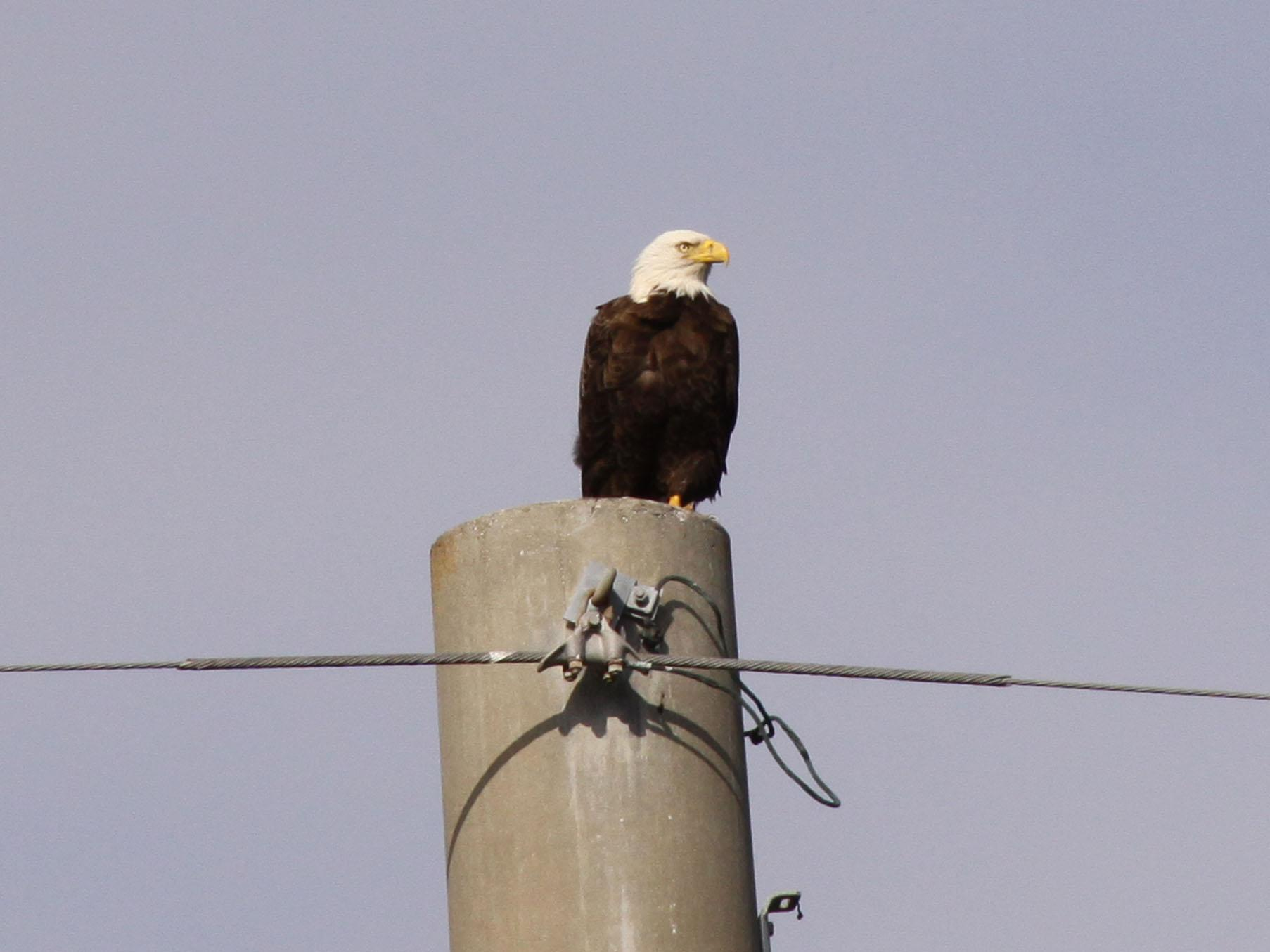 Sitting majestically atop a utility poll at NASA's Kennedy Space Centre in Florida, a bald eagle is king of all he surveys. Kennedy co-exits with the Merritt Island National Wildlife Refuge, which provides a habitat for 330 species of birds including bald eagles. A variety of other wildlife--117 kinds of fish, 65 types of amphibians and reptiles, 31 different mammals, and 1,045 species of plants--also inhabit the refuge.